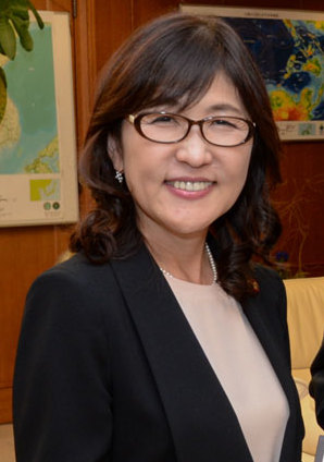 Courtesy Call by His Excellency Dr. Hans Carl VON WERTERN, Ambassador Extraordinary and Plenipotentiary of Germany to Japan (October 27, 2016 MOD)